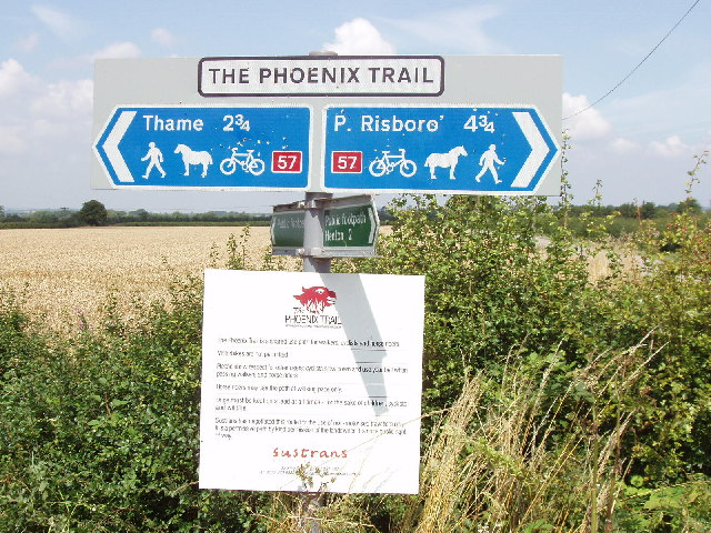 Phoenix Trail sign on former Thame to Princes Risborough railway